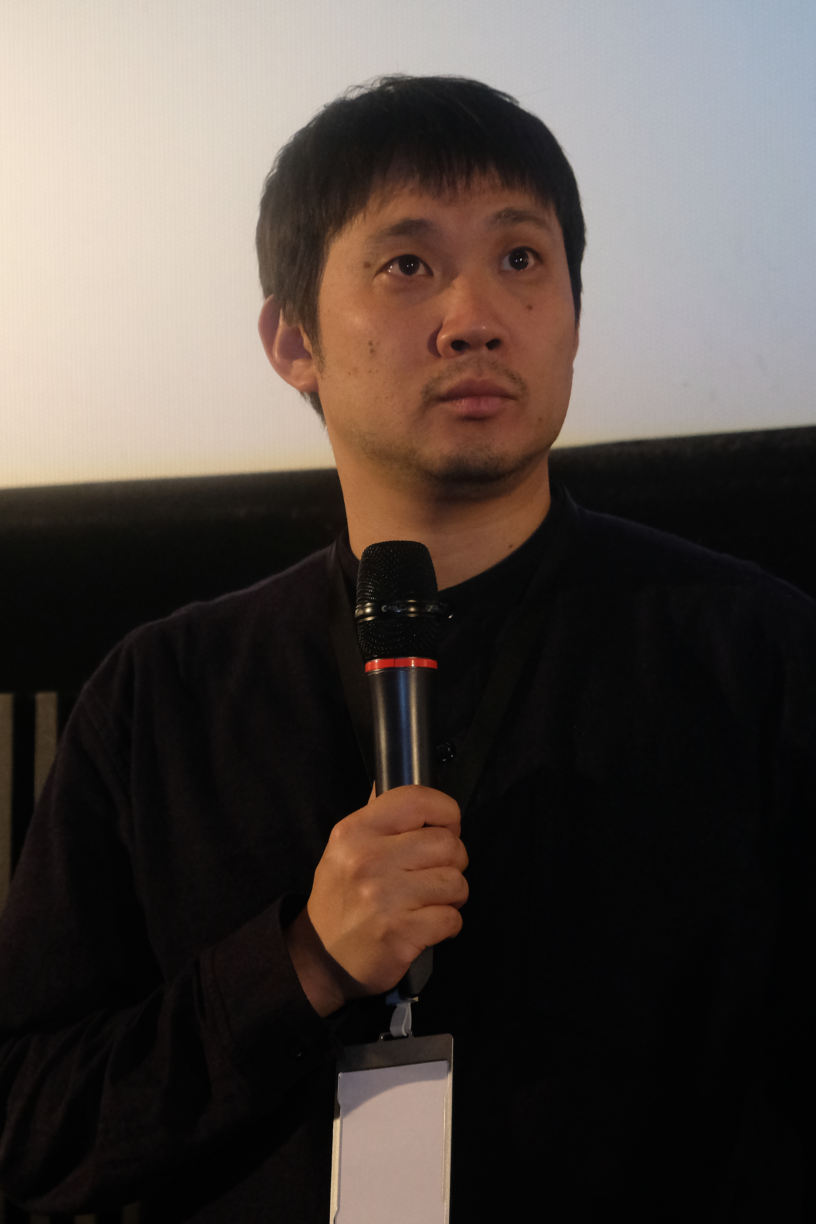 Director Ryusuke Hamaguchi attending HKAFF2018 for his Cannes-competing film Asako I&II.